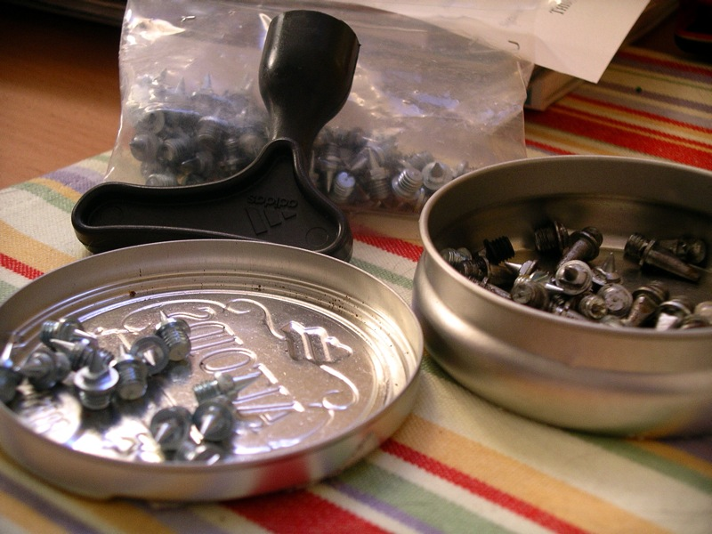 Track spikes with spike wrench photo